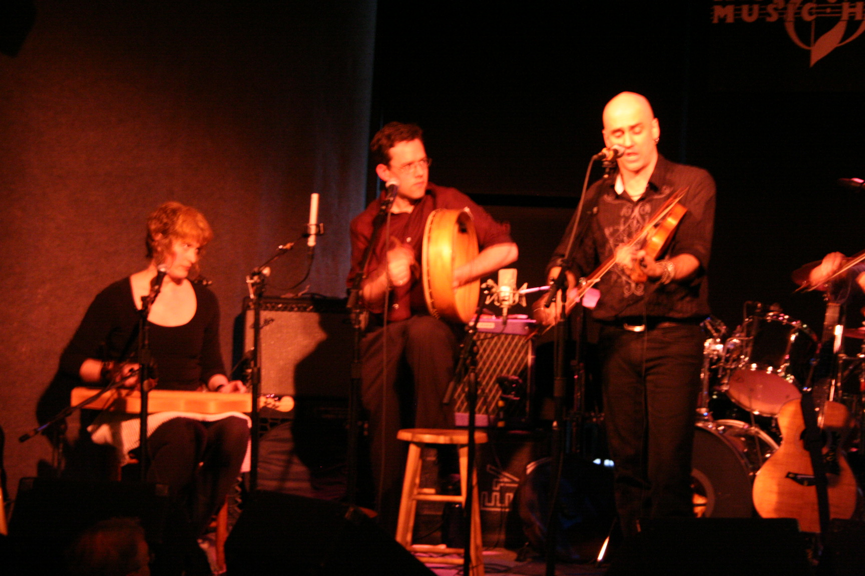 Eliza, Peter & Tim at the Iron Horse. Cordelia's Dad 20th Anniversary show! April 29, 2007